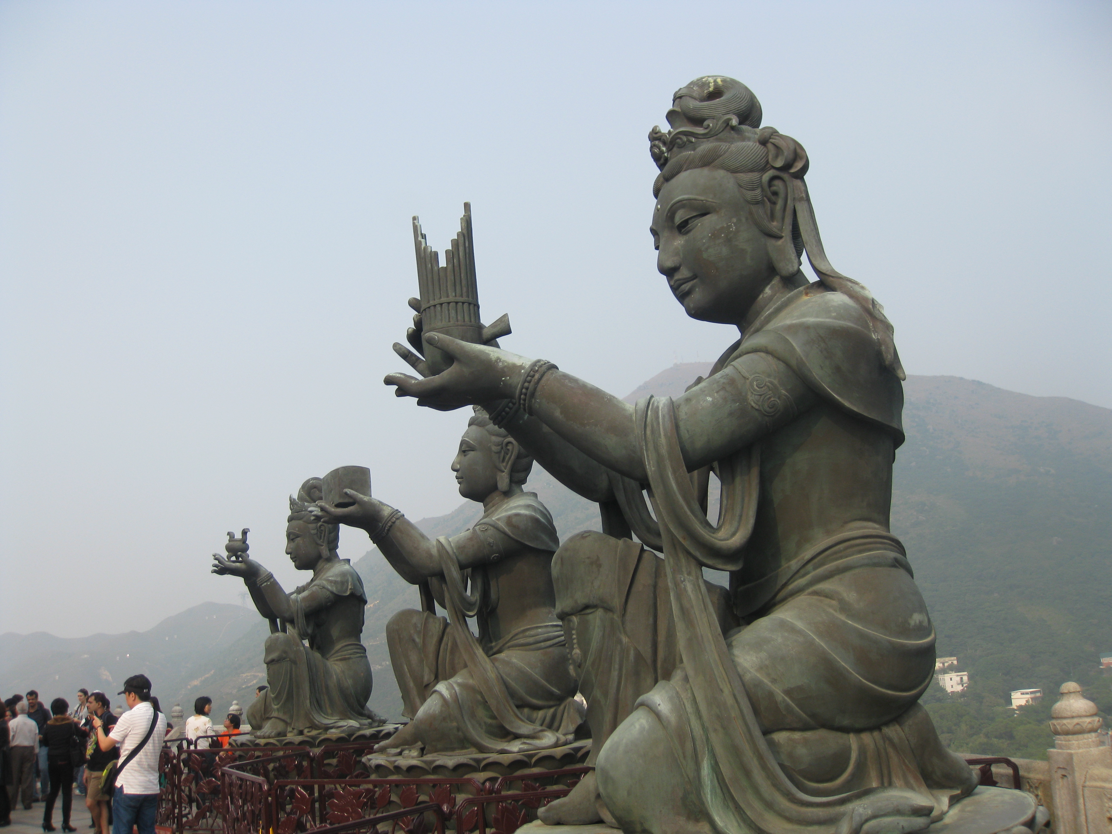 Hong Kong - Tian Tan Buddha